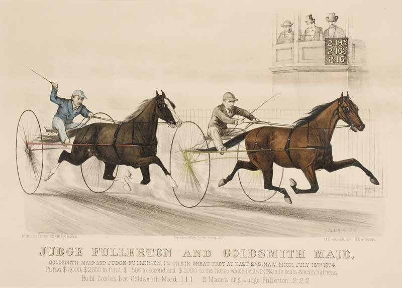 1874 Currier and Ives lithograph print by artist John Cameron (1830-1876) of famous 1870s trotters Goldsmith Maid and Judge Fullerton at the East Saginaw Driving Park on July 16, 1874.